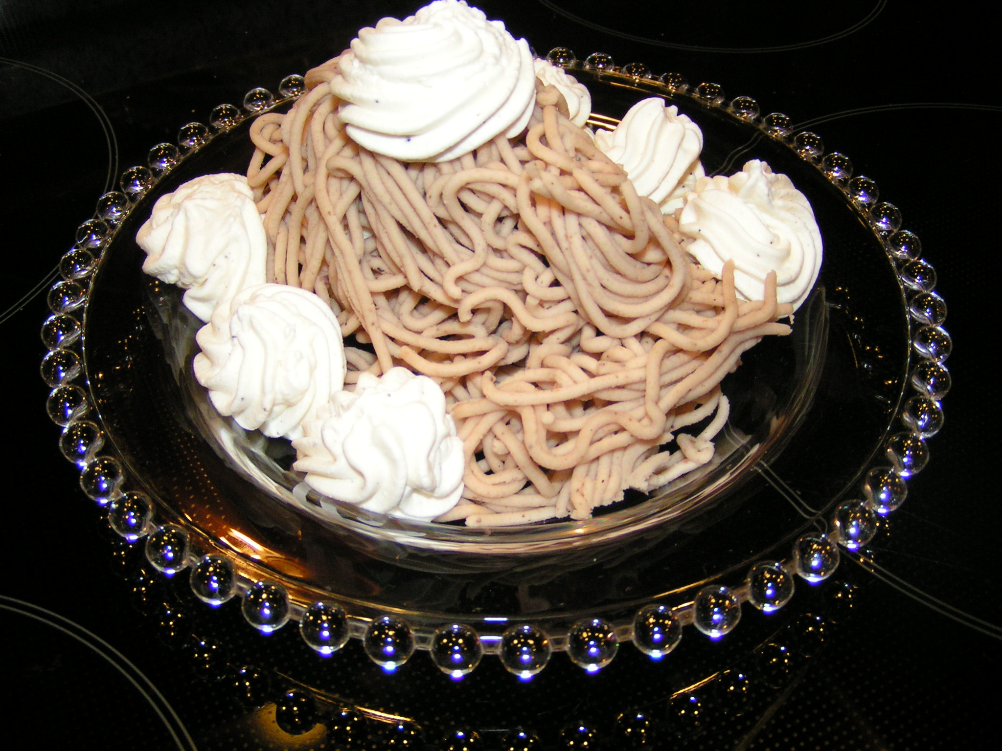 Dessert composed of sweet chestnuts whiped cream and vanille ice cream